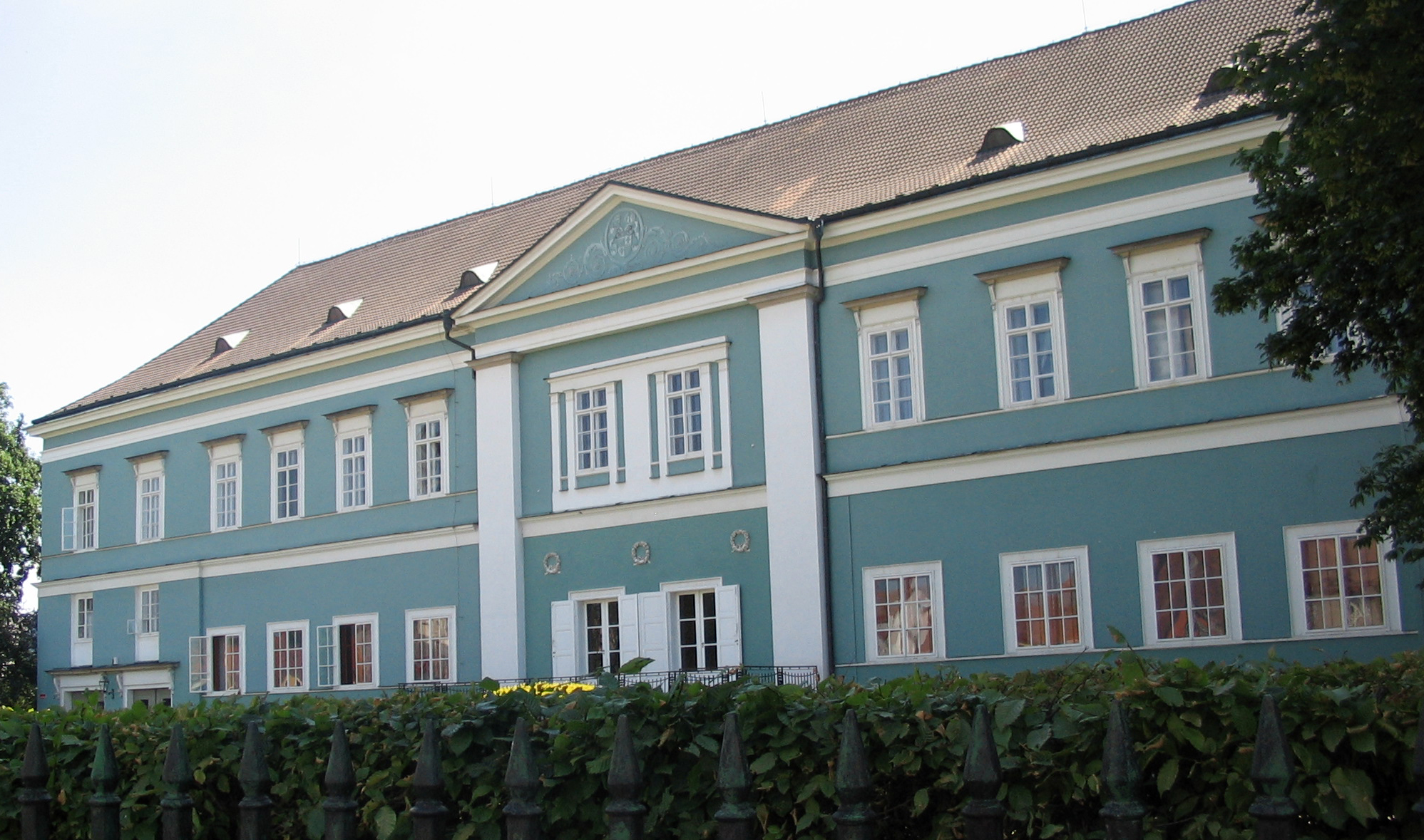 Dačice chateau.(Czech republic)